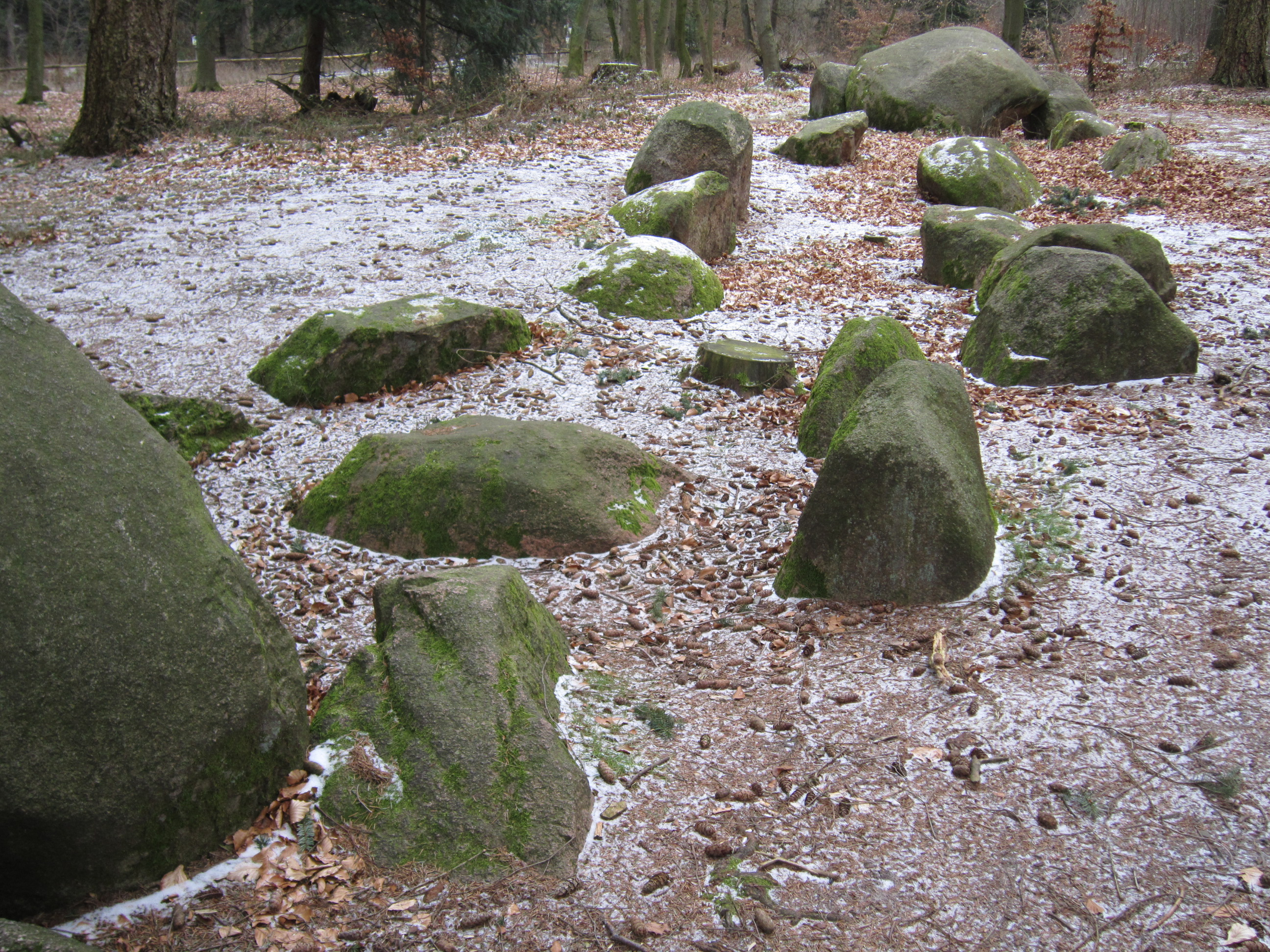 Dolmen Stappenberg near Damme (Dümmer)